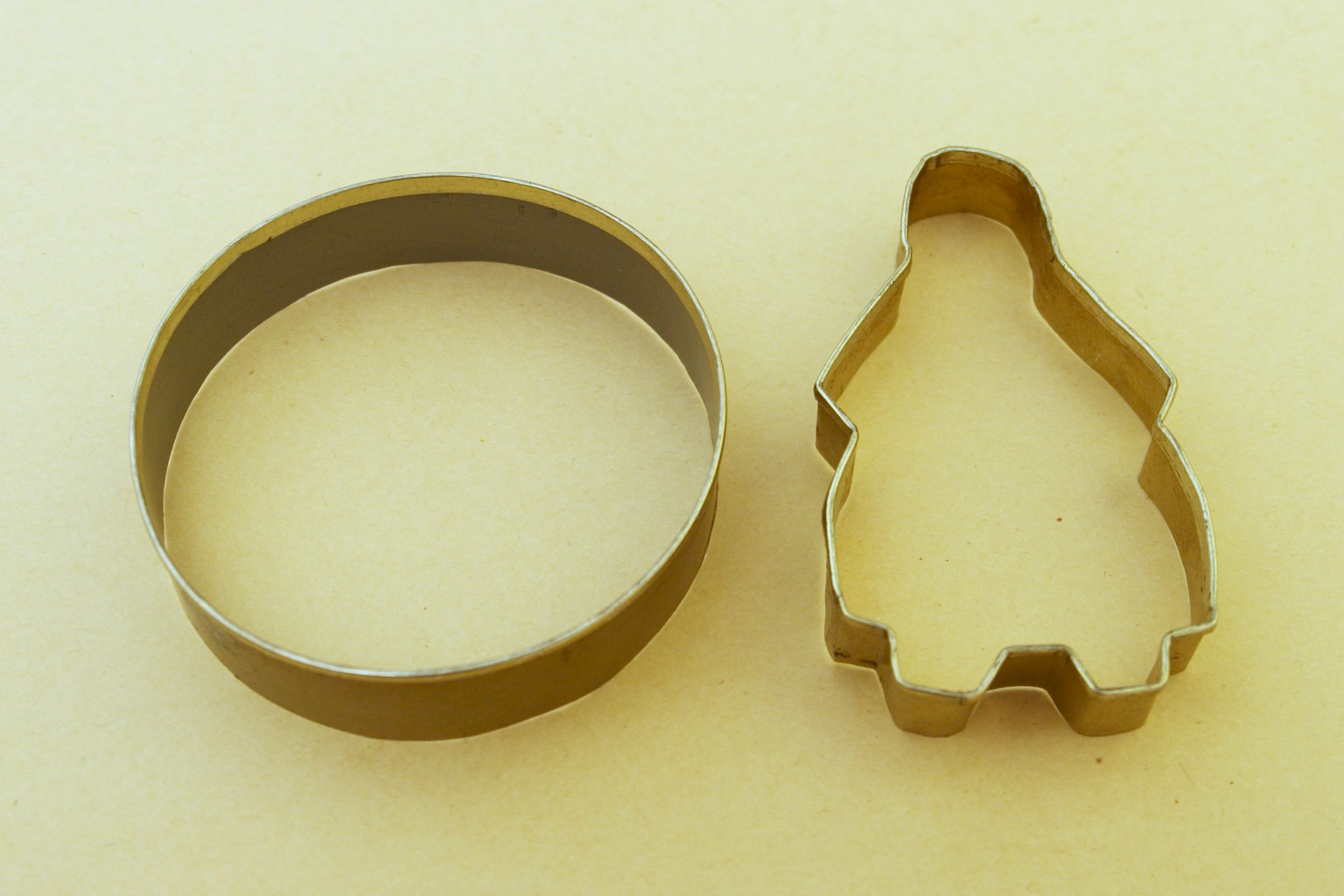 Cookie cutter for Mykolajchyky (cookies for Saint Nicholas Day in Ukraine), made of tin can